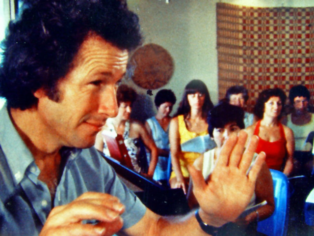 frame from CHOIR - 16 mm documentary film (dir. Etan Tal) about The Israel Kibbutz Choir